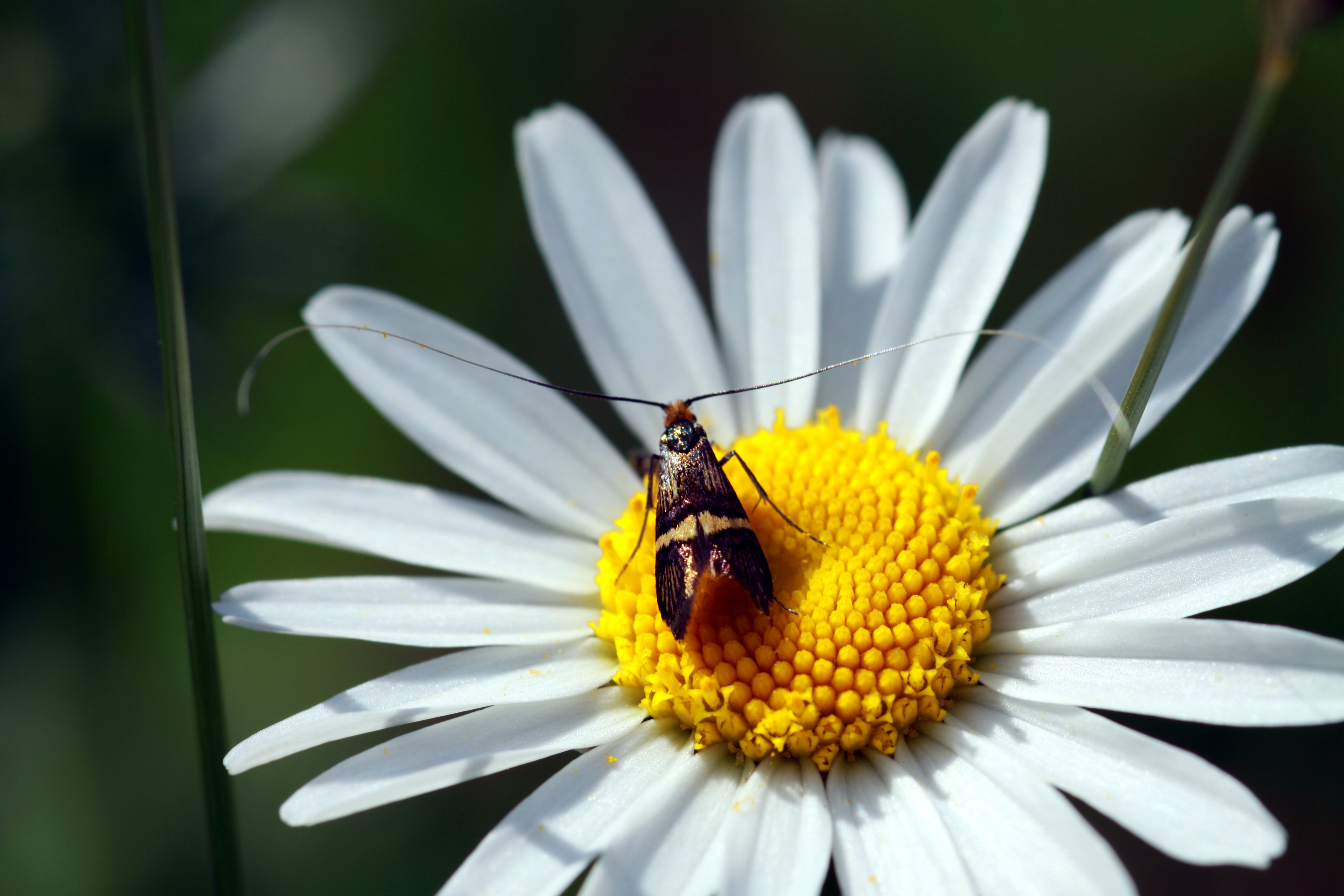 Adela croesella near Hrazany village in Písek District, Czech Republic